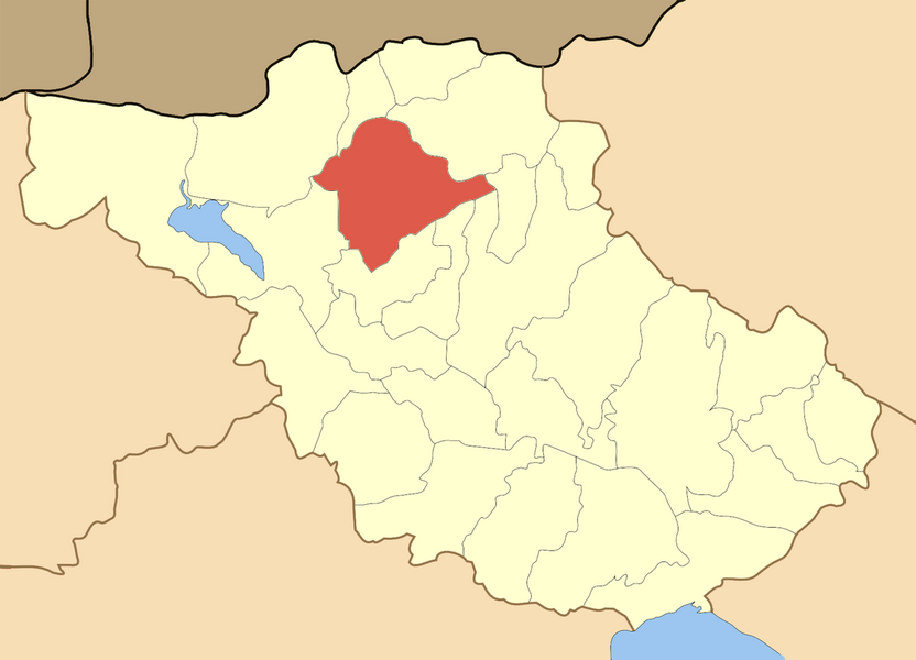 Locator map of Sidirokastro municipality in Serres perfecture in Greece.